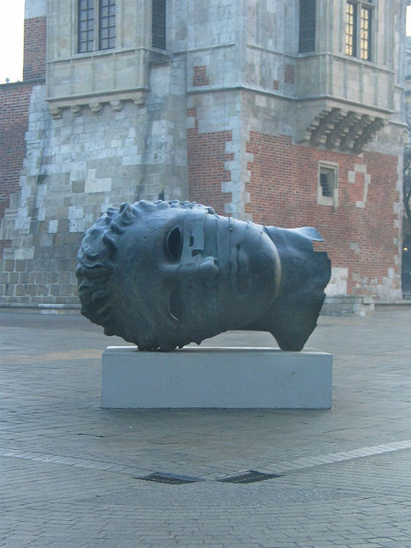 Igor Mitoraj's sculpture, Eros Bendato (Eros Tied) (bronze), 1999 Exhibition "Igor Mitoraj - Sculptures and Drawings" (October 17 2003 to January 25 2004) at marketplace in Cracow. In the background: town-hall tower.